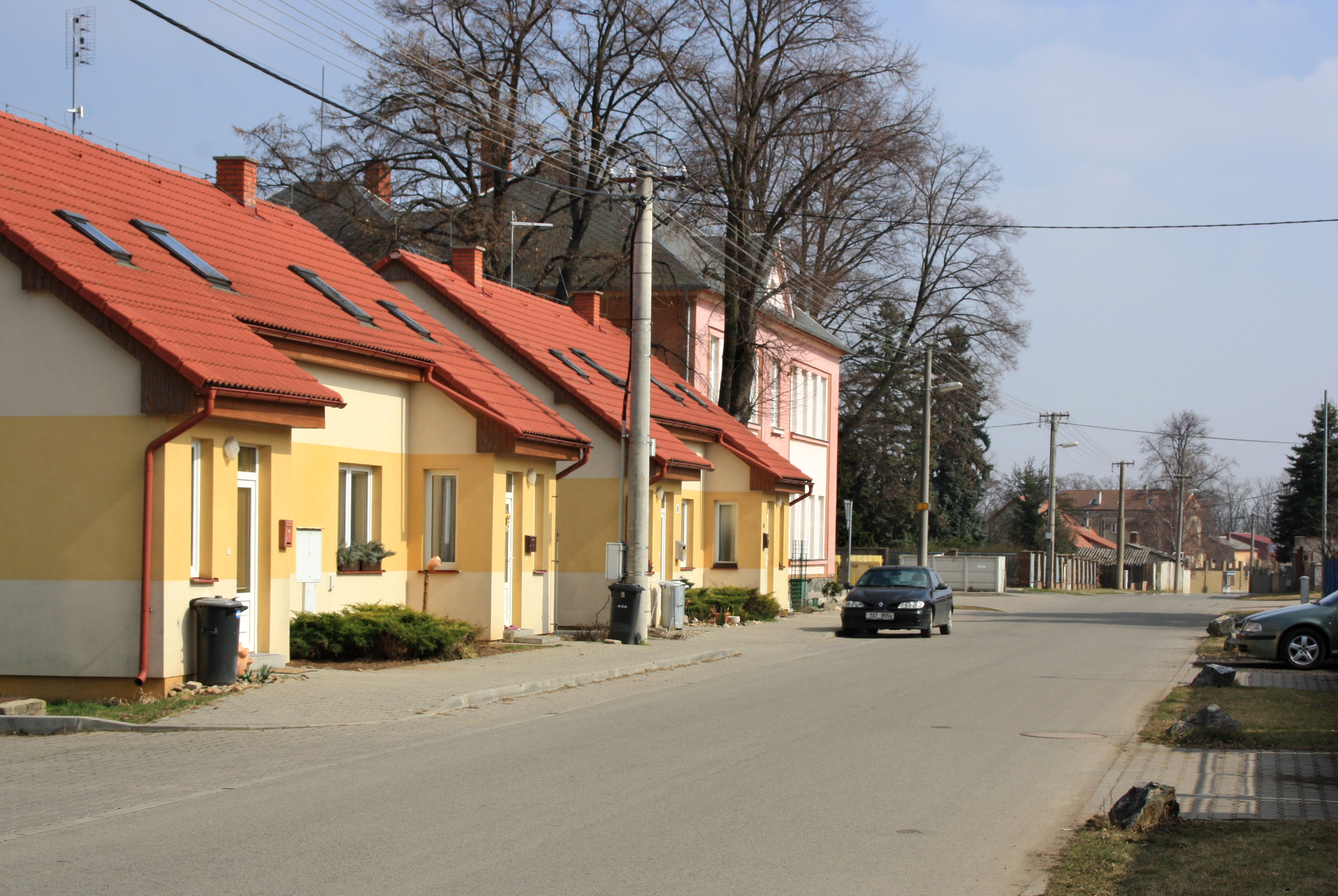 Main street in Zátvor, part of Zálezlice village, Czech Republic